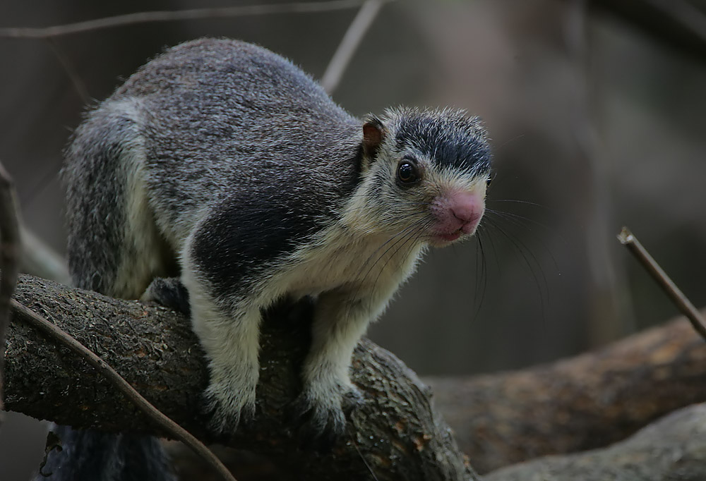 This is the Highland subspecies of Giant Squirrel which has denser fur to cope with the cold.